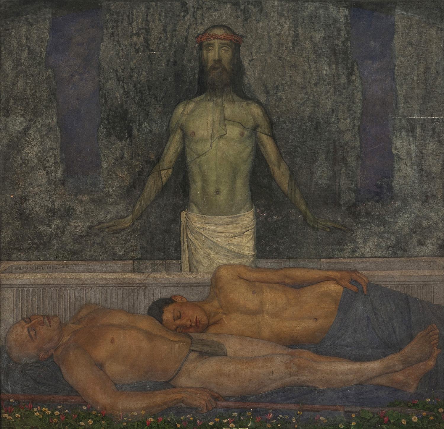 Otto Sohn-Rethel, Title: Resurrection, paper on wood, 100x100cm, 1905